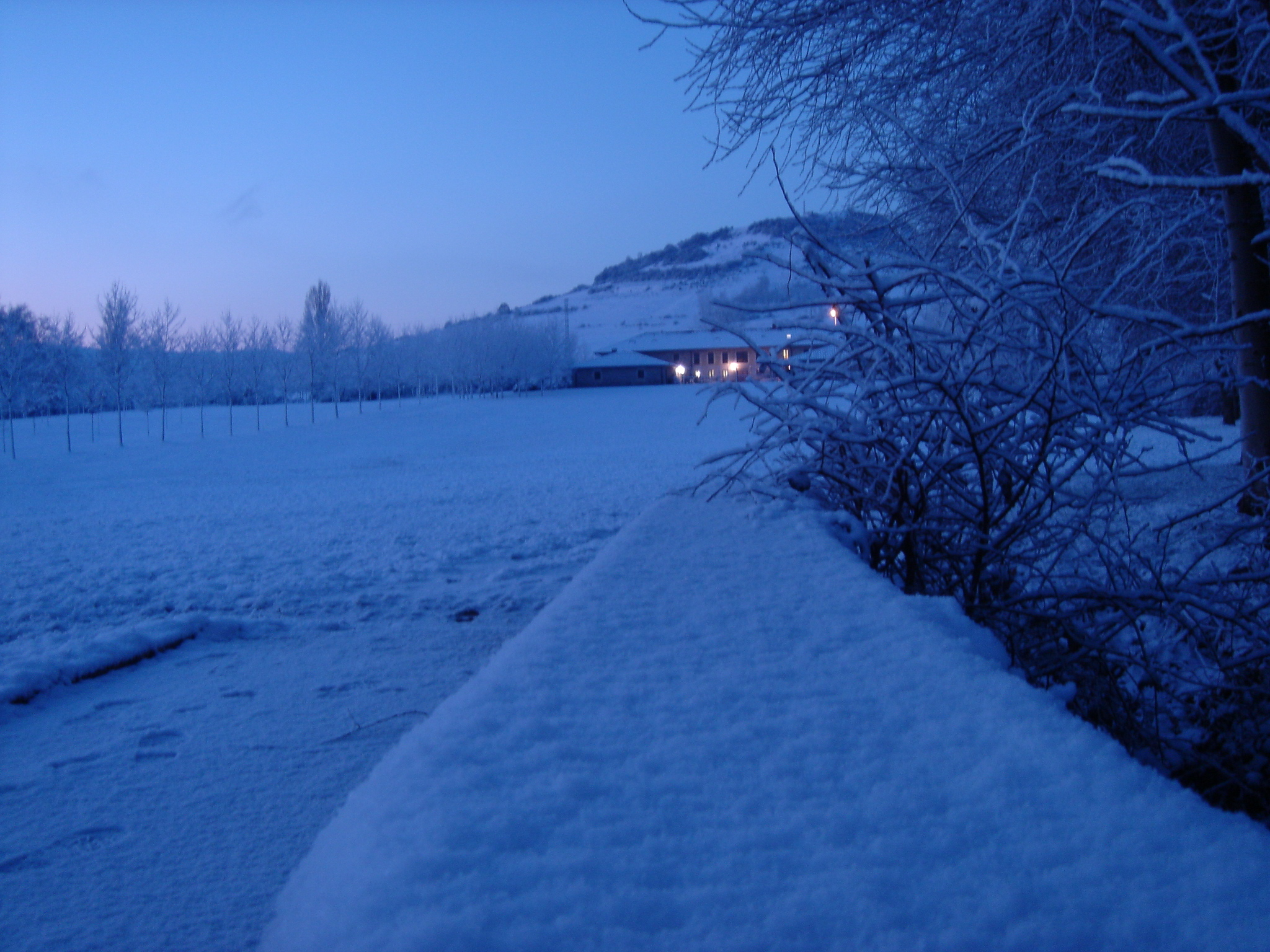 Olarizu under the snow (Vitoria-Gasteiz, Araba, Basque Country, Spain)